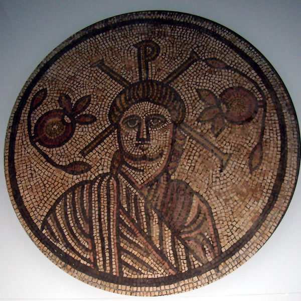 Central panel of a Roman mosaic found at Hinton St Mary